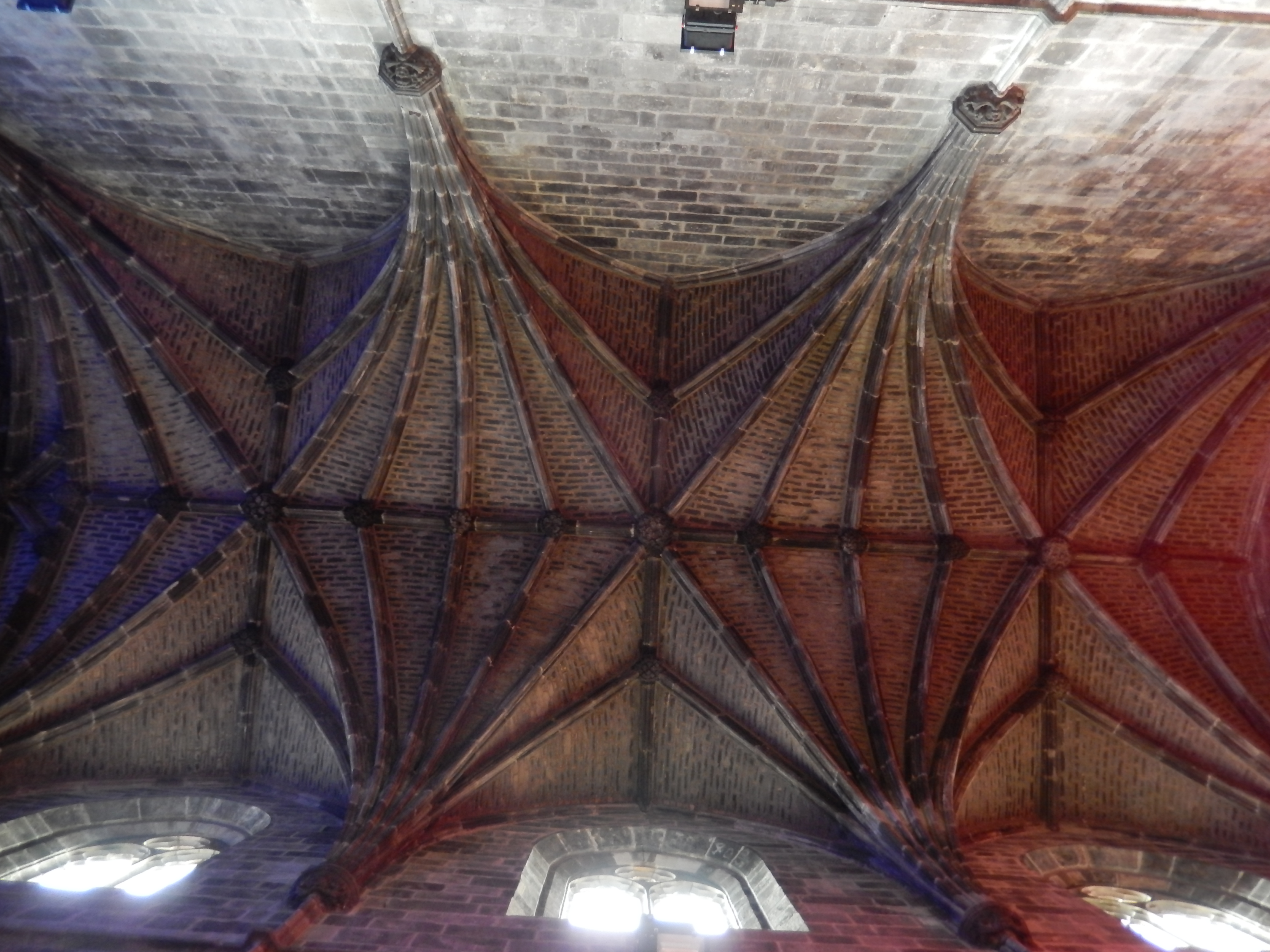 Ceiling of Trinity Apse in Chalmer's Close, (between High Street And Jeffrey Street), Trinity College Church Apse Wikidata has entry Q17570022 with data related to this item.